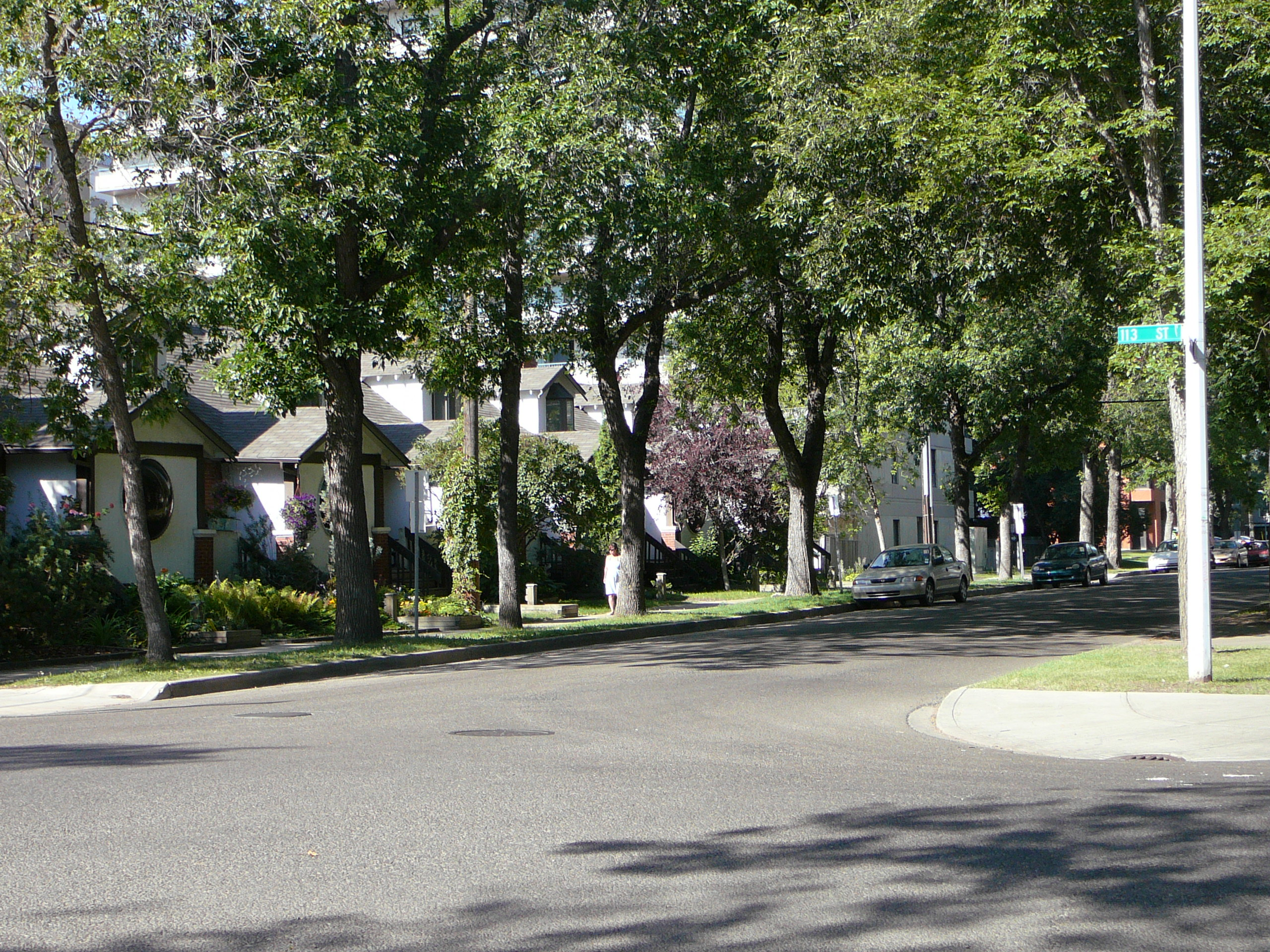 Picture of housing along 102 Avenue in the Edmonton neighbourhood of Oliver, at 113 Street NW